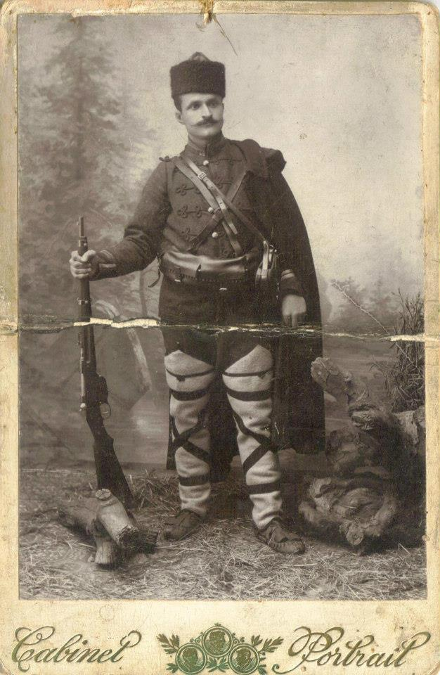 Mihail Nikolov Rozov.